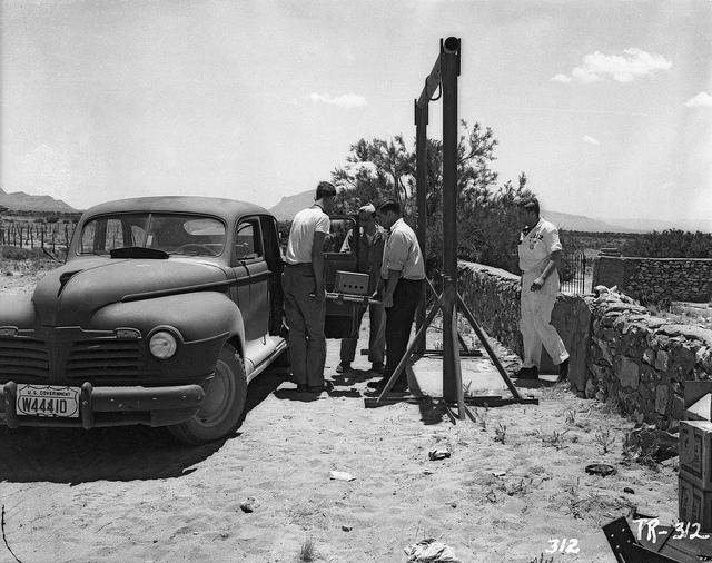 Herbert Lehr and Harry Daghlian loading the assembled tamper plug containing the plutonium pit and initiator into a sedan for transport from the McDonald ranch house to the shot tower.